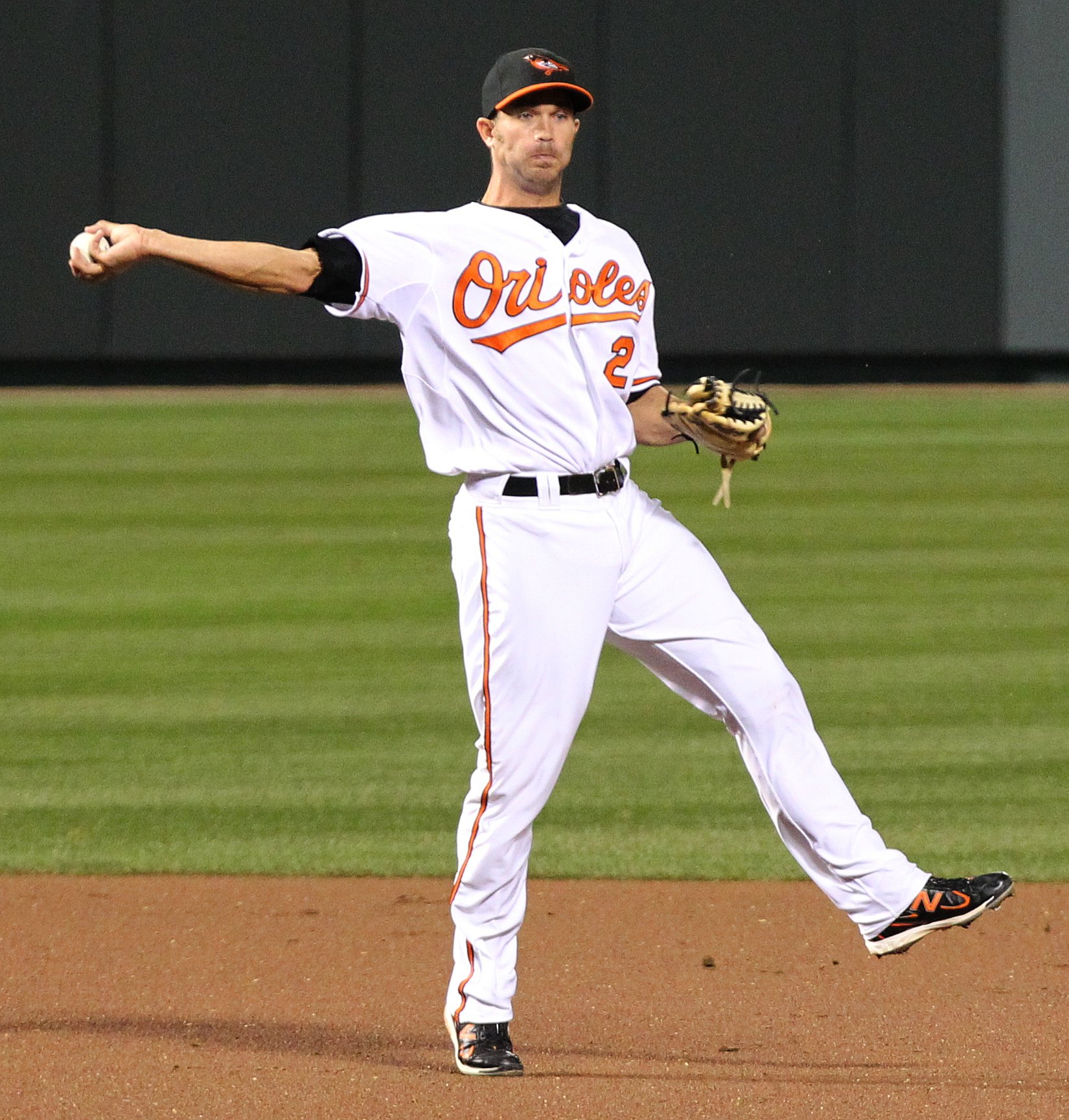 J. J. Hardy